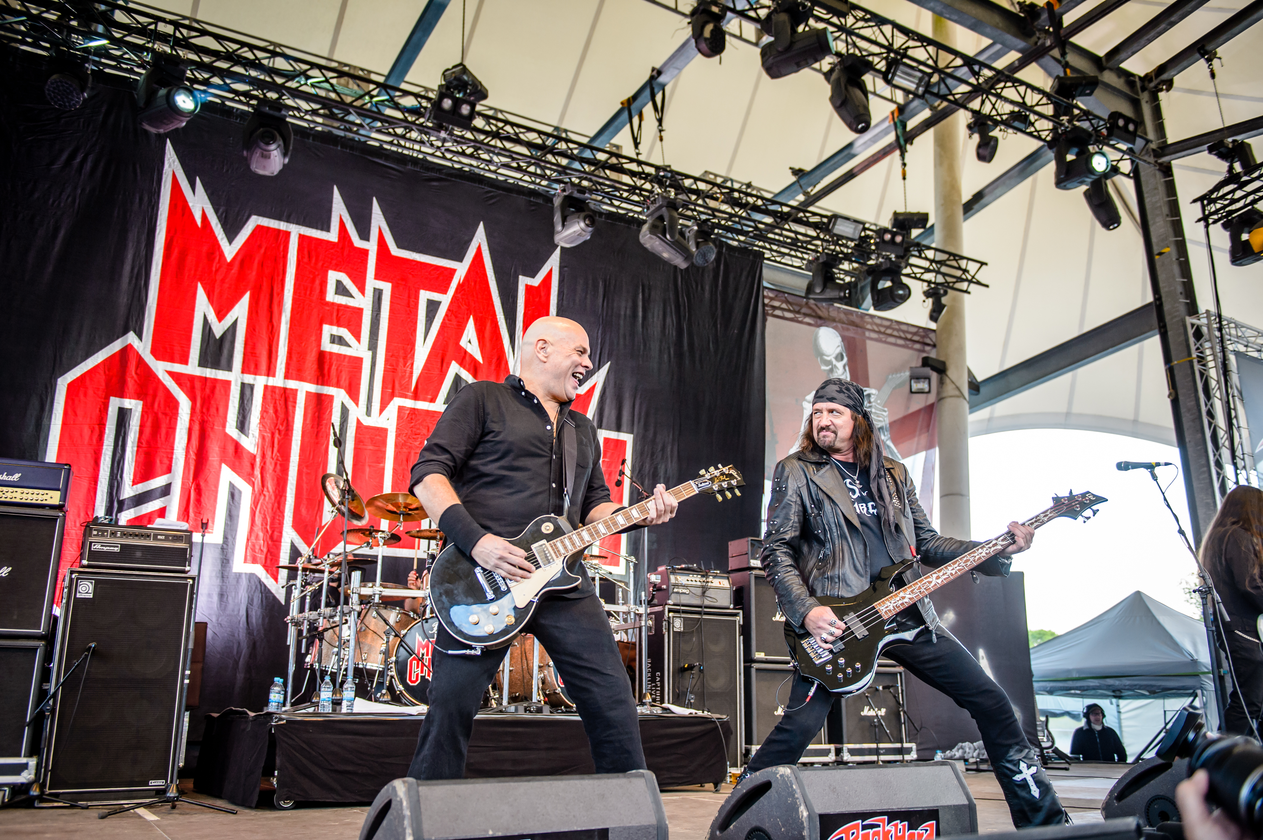 Metal Church; RockHard Festival 2016